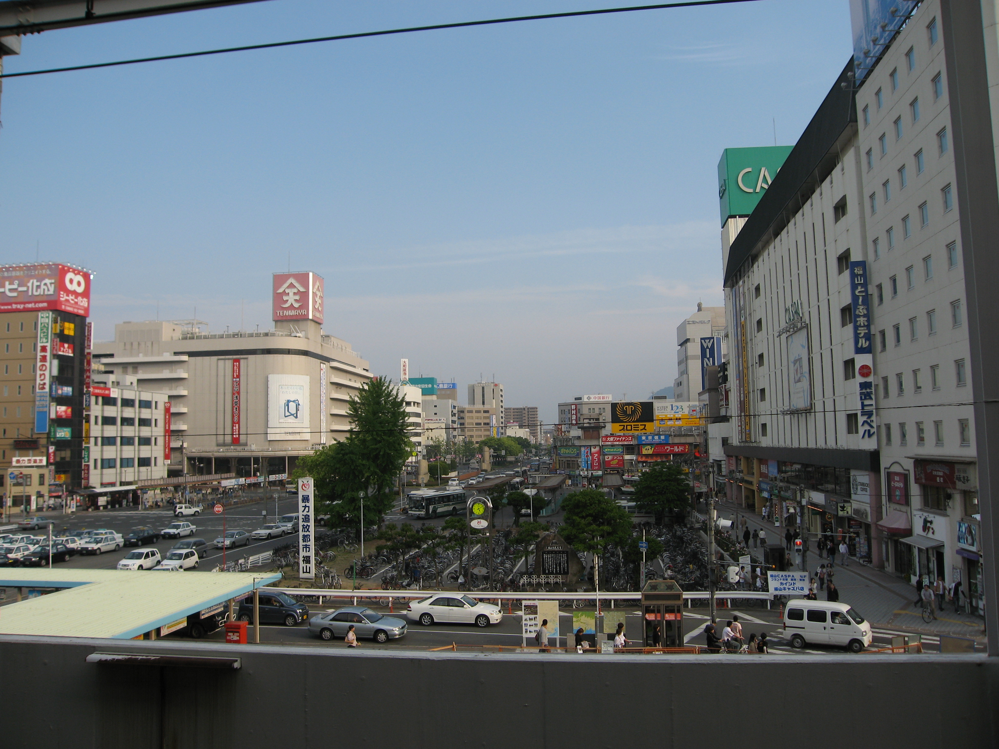 Southern Gate at Fukuyama Station Photo by Lanbea